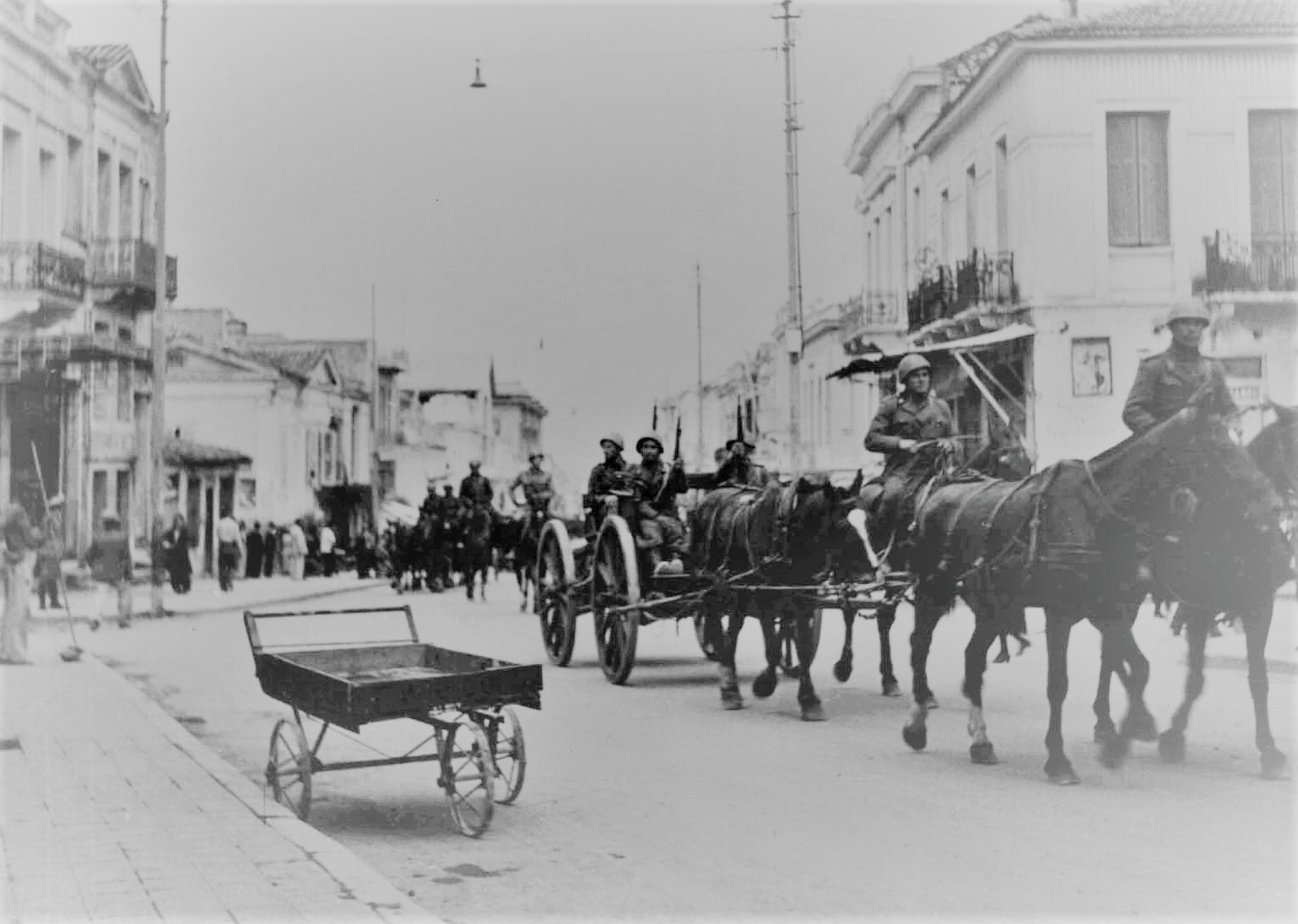 Movement of an Italian column through Patras, western Greece in May 1941.